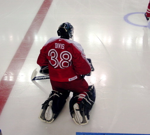 Reinhard Divis playing for the Austrian national ice hockey team. Divis played for the St. Louis Blues from 2001 until 2006, returning to play in his native Austria.Rheinhard Divis